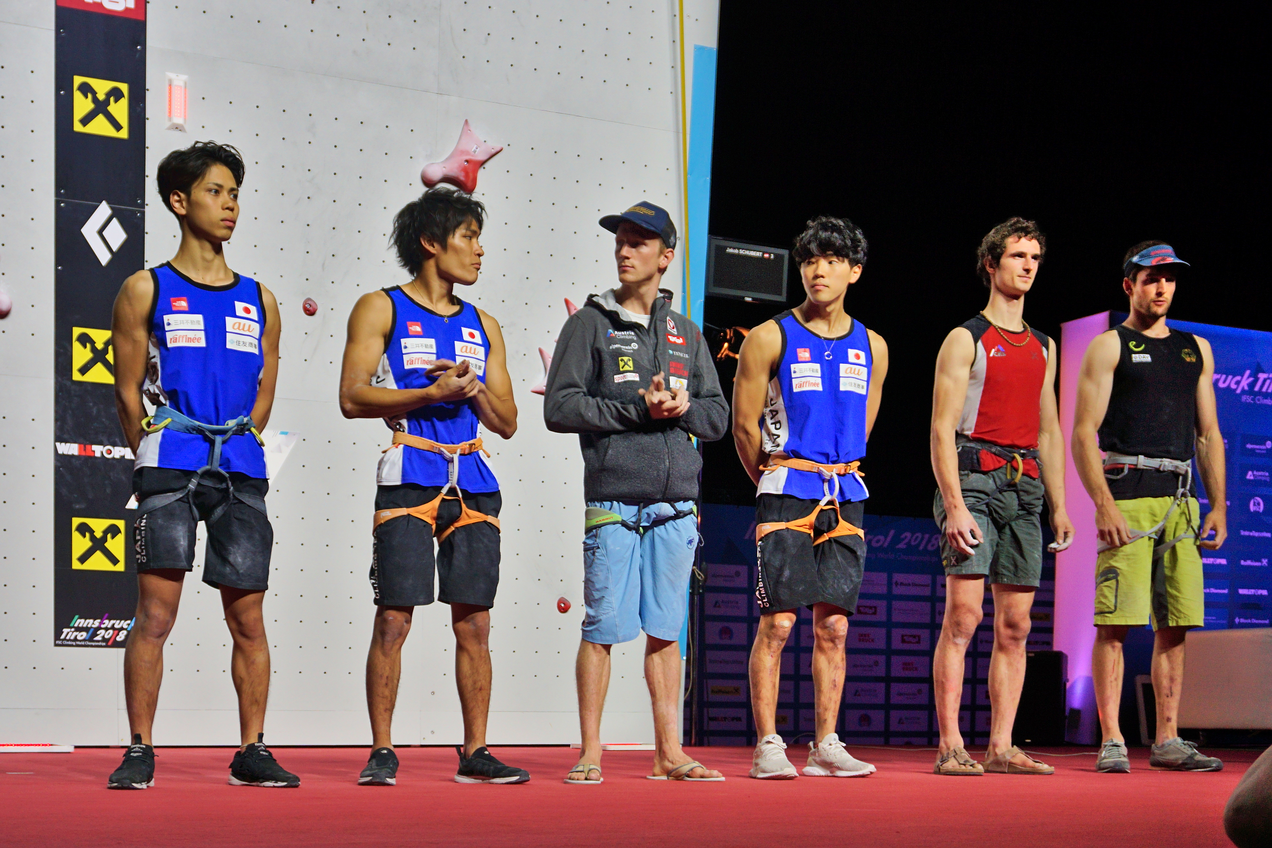 Climbing World Championships 2018 Combined Final Man finalists